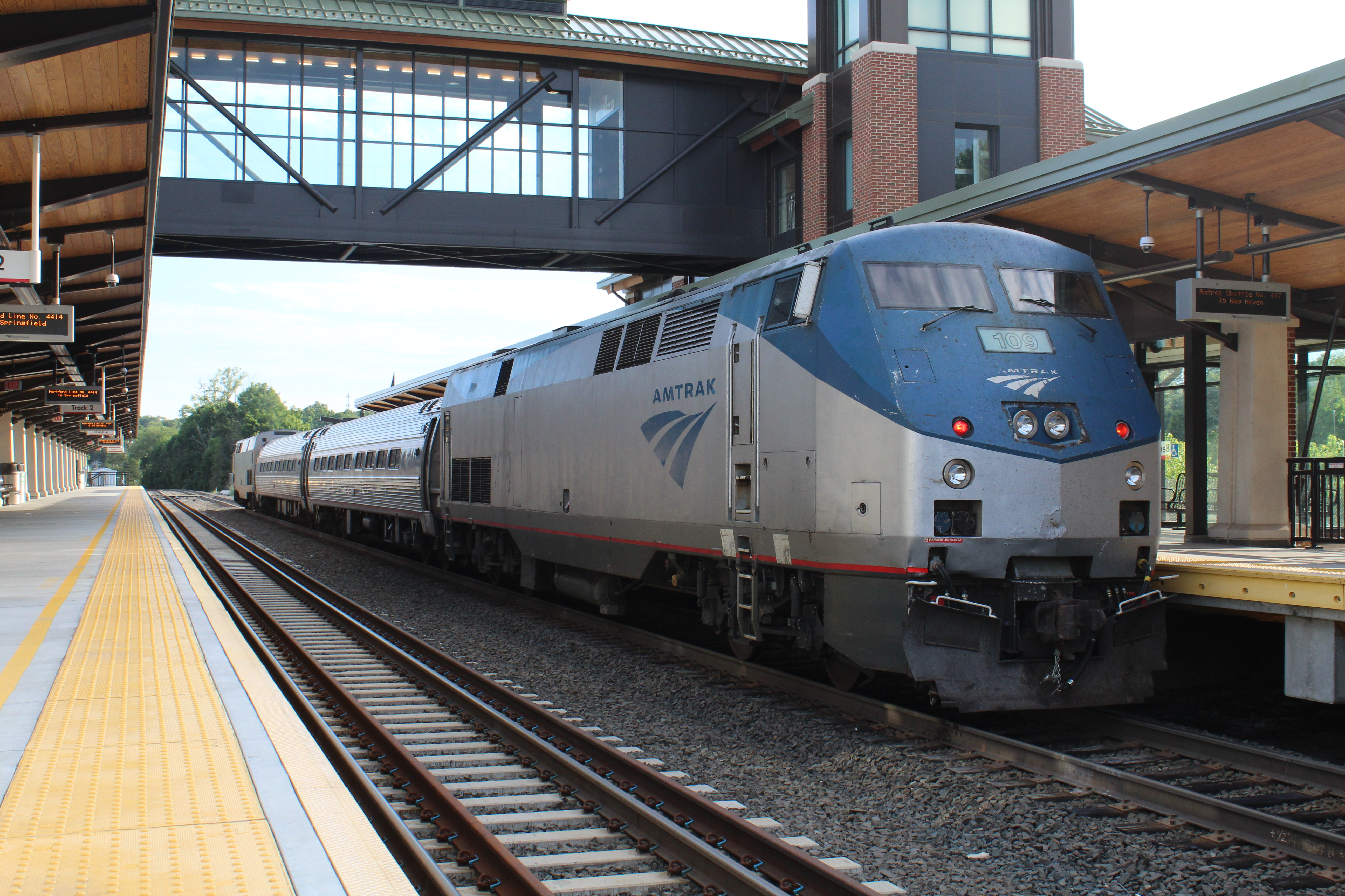 Amtrak Shuttle Train 417, bound for New Haven, departs the Berlin Station on July 2, 2019.